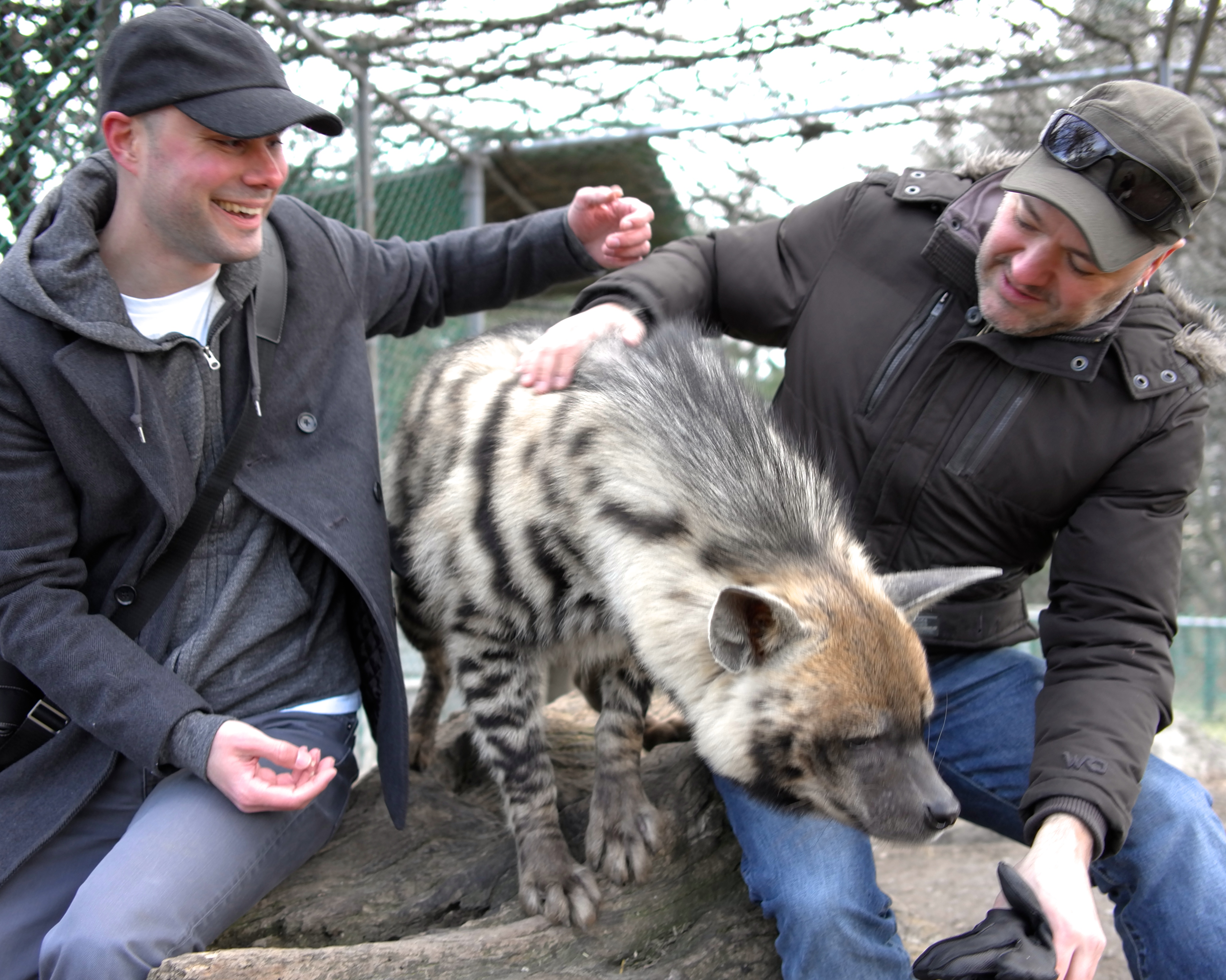 Striped hyena at Jungle Cat World, Orono, Ontario.